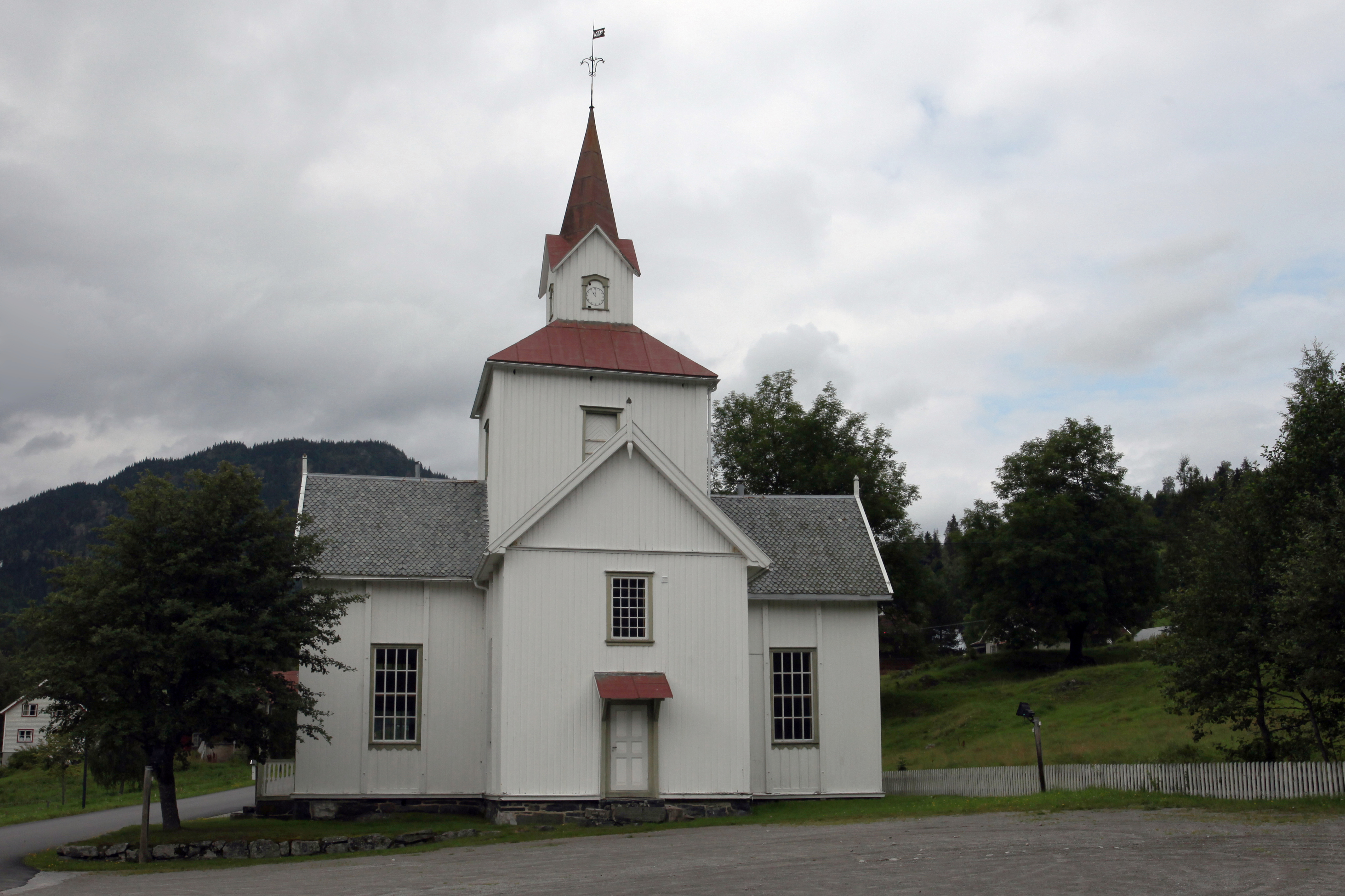 Picture of Hjartdal church (Telemark - Norway)